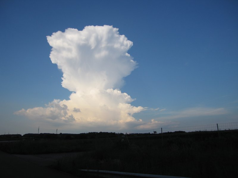 Cumulonimbus capillatus taken in Lorraine, France.